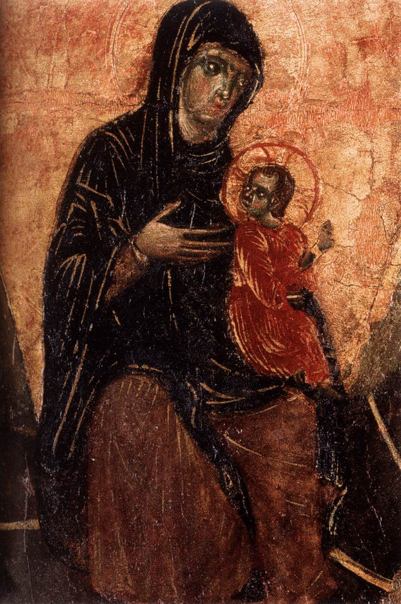 This painting belonged to a polyptych (nr. 5) depicting twelve scenes from the life of Christ. The polyptych was dismembered at the beginning of the nineteenth century and the panels are now dispersed to various collections.